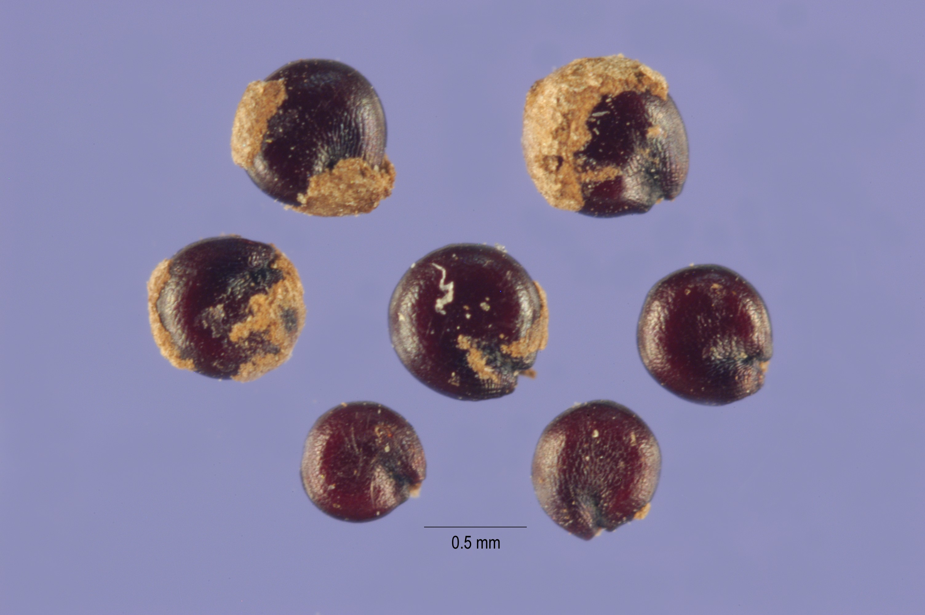 Chenopodium glaucum seeds